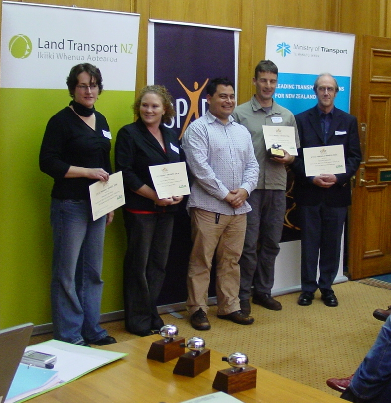 2006 Cycle Friendly Awards, Best Cycle Facility Award finalists: (l. to r.) unknown, Sandi Morris, Charles Chauvel MP, Paul de Spa, Stanley Chesterfield